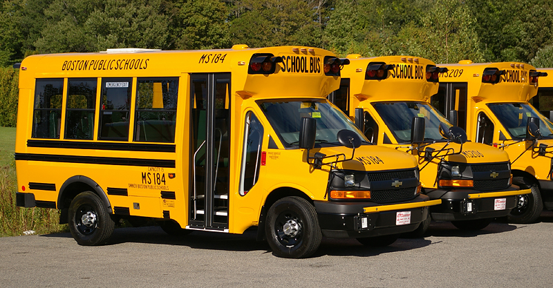 2012 Blue Bird Micro Bird MB-II by Girardin with Chevrolet chassis, belonging to Boston Public Schools, photographed in Portland, Maine.